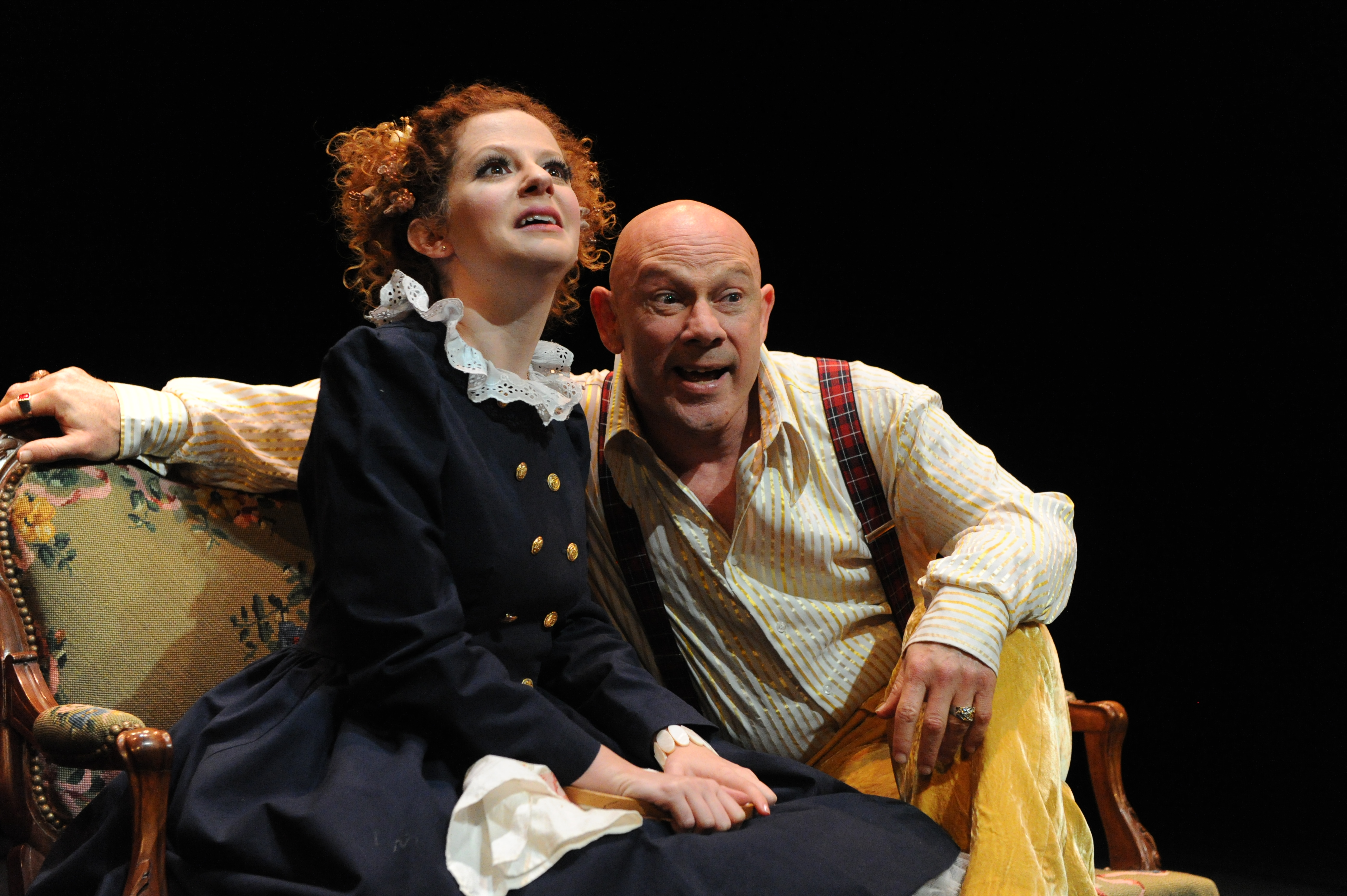 "The School for Wives" by Moliere, featuring Rami Barukh & Yael Tal. Director: Udi Ben-Moshe, The Cameri Theater.